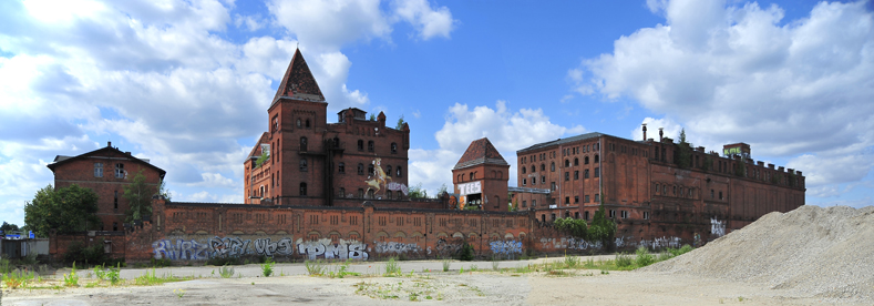 Berlin Bärenquell brewery, view from south, July 2013